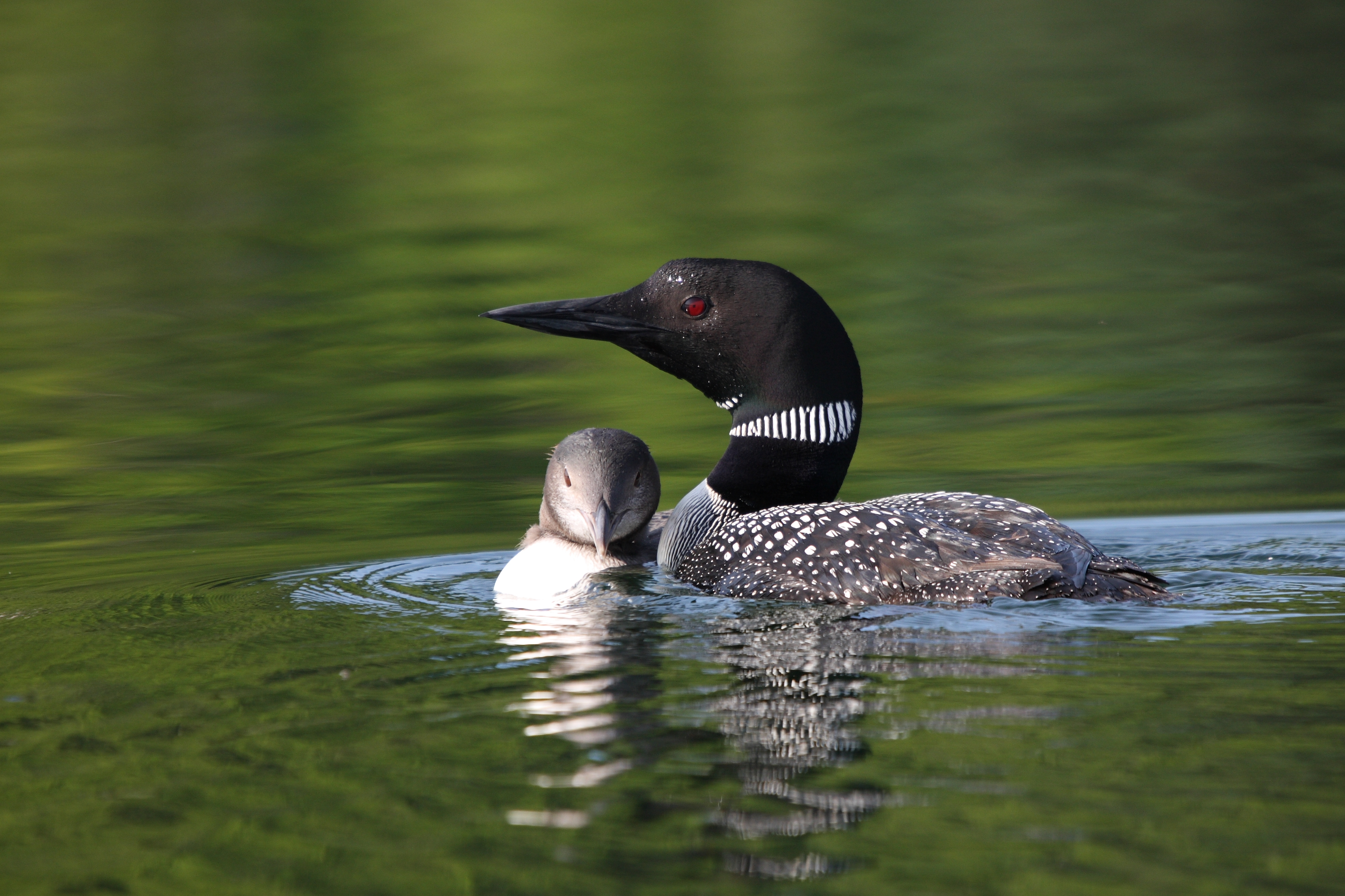 Common Loon, adult and immature, Blue Sea Lake, Quebec, Canada